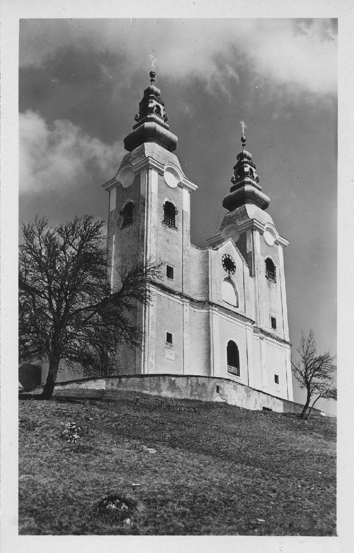 Postcard of Gora Oljka church